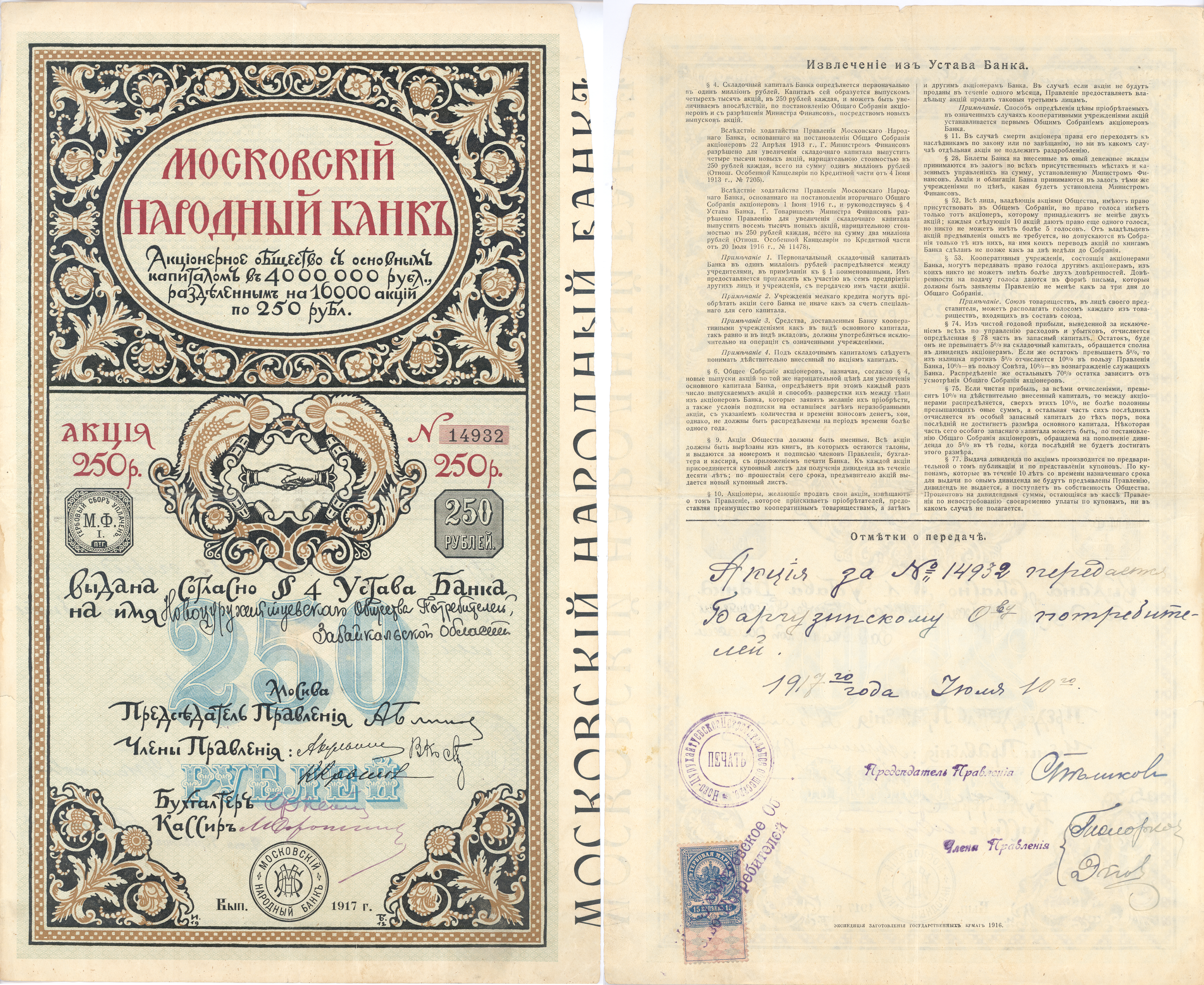 Stock certificate of the Moskovskaya Narodnaia Banka (=Moscow People's Bank) of 250 rubles. Released in 1917 at the name of the Company Novotsurukhaytuevkovo Consumers, Trans-Baikal region. On the the reverse side, some endorsements.